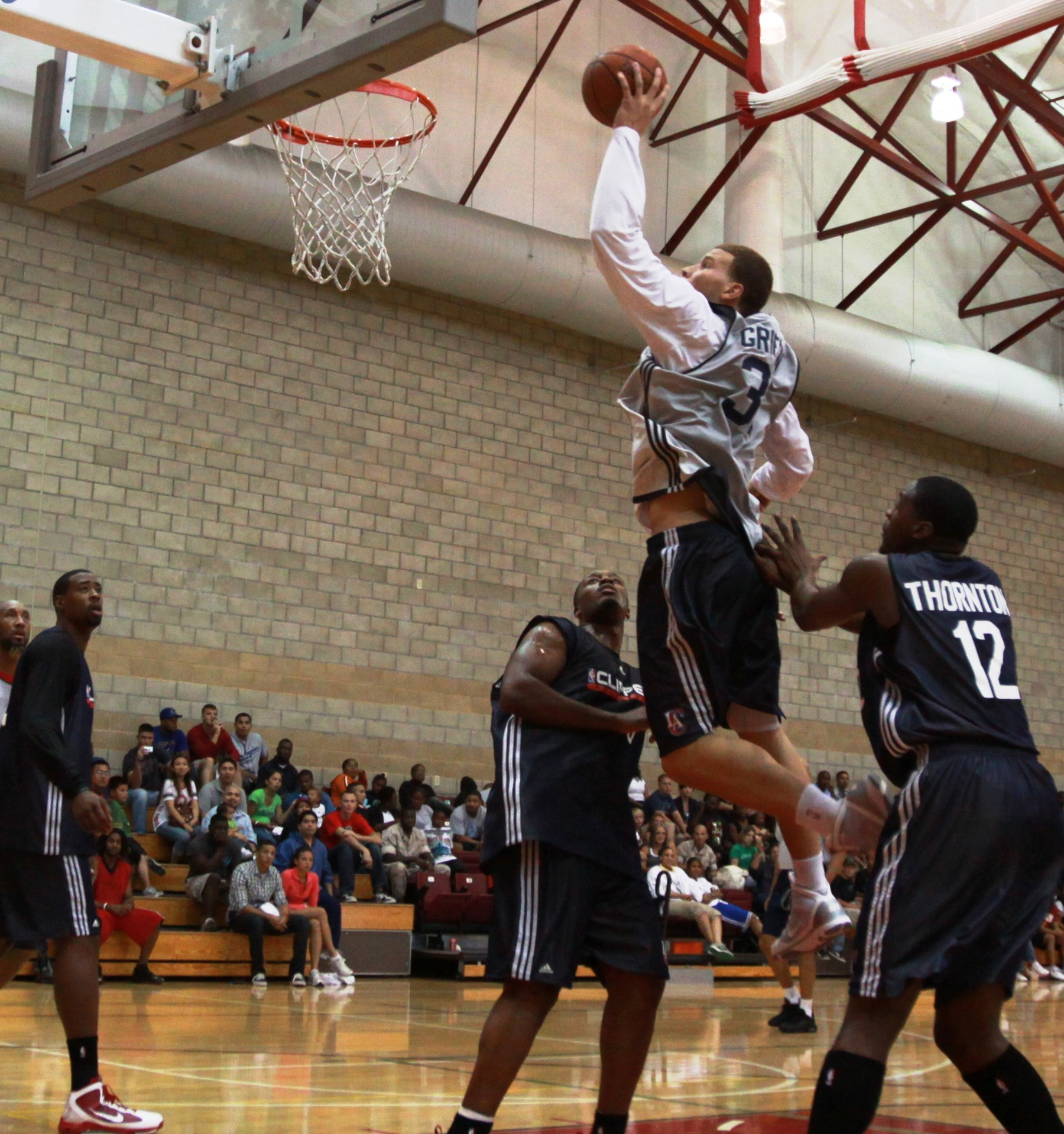 Blake Griffin, power forward, Los Angeles Clippers, dunks a basketball during a scrimmage game at Paige Field House, Camp Pendleton, Oct. 10. The team offered a free game to service members and their families for an up-close look at the team in action. This file has been extracted from another file: Blake Griffin scrimmage Camp Pendleton.JPG